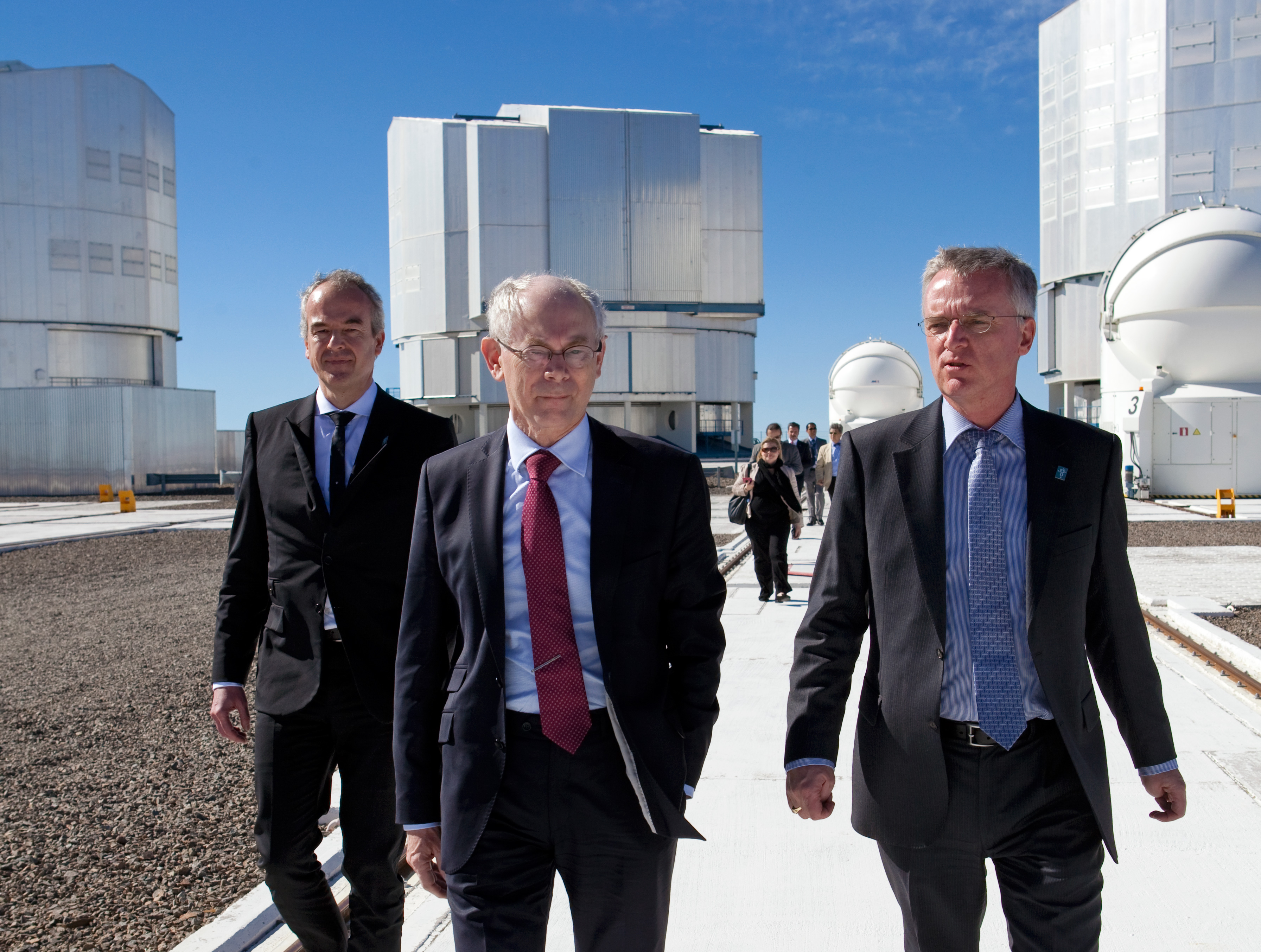 Following the Summit of the Community of Latin American and Caribbean States–European Union (CELAC–EU) in January 2013, ESO’s Paranal Observatory was honoured with a visit from the President of the European Council, Herman Van Rompuy. The President was taken on a tour of the observatory by Tim de Zeeuw, ESO’s Director General, where he admired the four 8.2-metre telescopes which comprise the Very Large Telescope (VLT), the most advanced optical/infrared telescope in the world. He also toured Paranal’s award-winning Residencia, the observatory’s accommodation and office building. President Van Rompuy appears in the centre of the picture with the ESO Director General, Tim de Zeeuw, on the right and ESO’s Head of Administration, Patrick Geeraert, on the left. Several VLT Unit Telescopes are visible in the background.